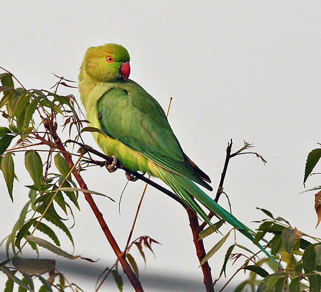 Rose-ringed Parakeet Psittacula krameri at Hodal in Faridabad District of Haryana, India.